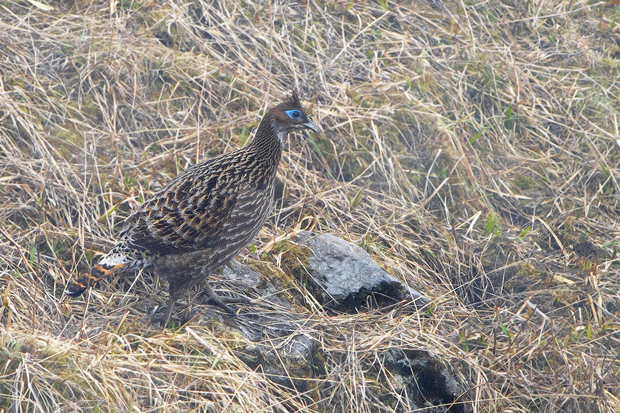 The species Himalayan Monal Female had been photographed in Pangolakha Wildlife Sanctuary, East Sikkim, India on 27.03.2016.